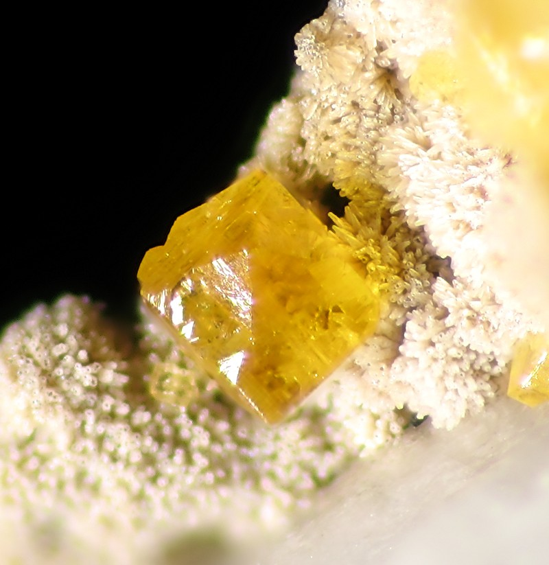 Tetrawickmanite Locality: Långban, Filipstad, Värmland, Sweden (Locality at ) Picture width 1 mm. Collection and photograph Christian Rewitzer